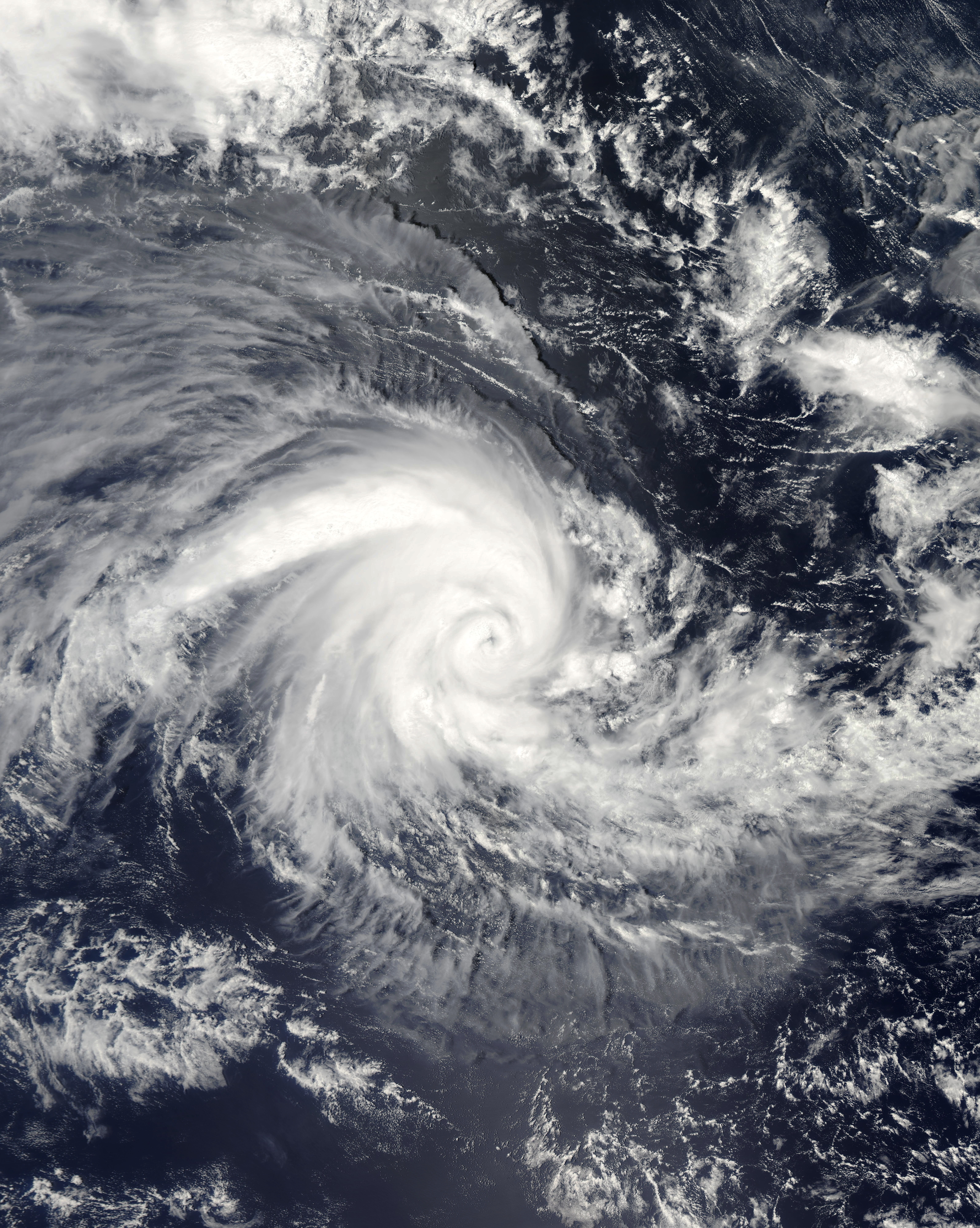 Cyclone Hondo intensifying on February 5